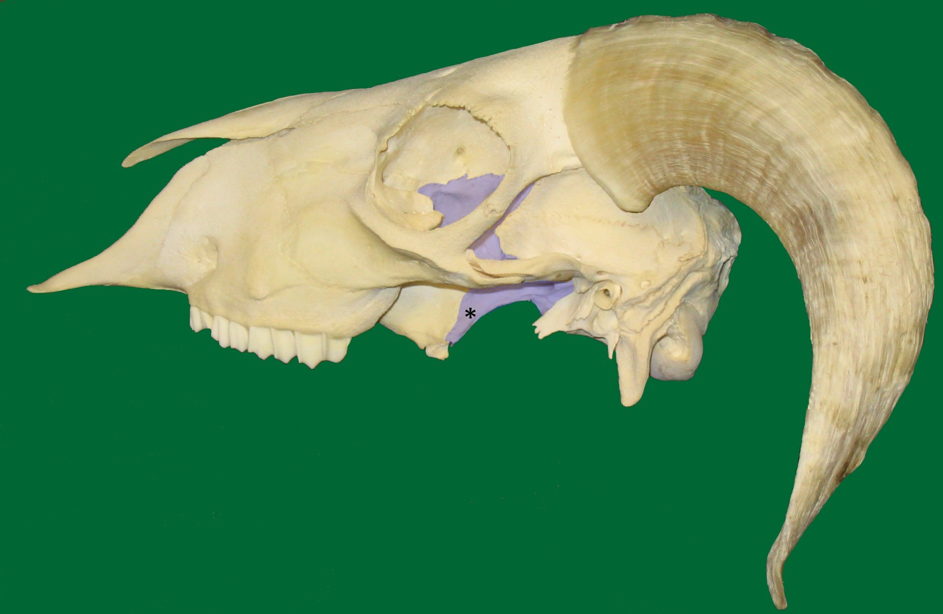 Skull of a sheep. Os sphenoidale farbig markiert, * pterygoid process